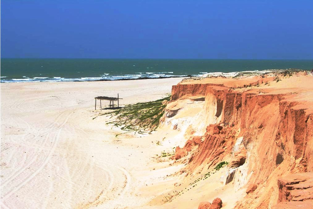 Canoa Quebrada cliff, Plio-Pleistocenic age sediments of the Barreiras Formation